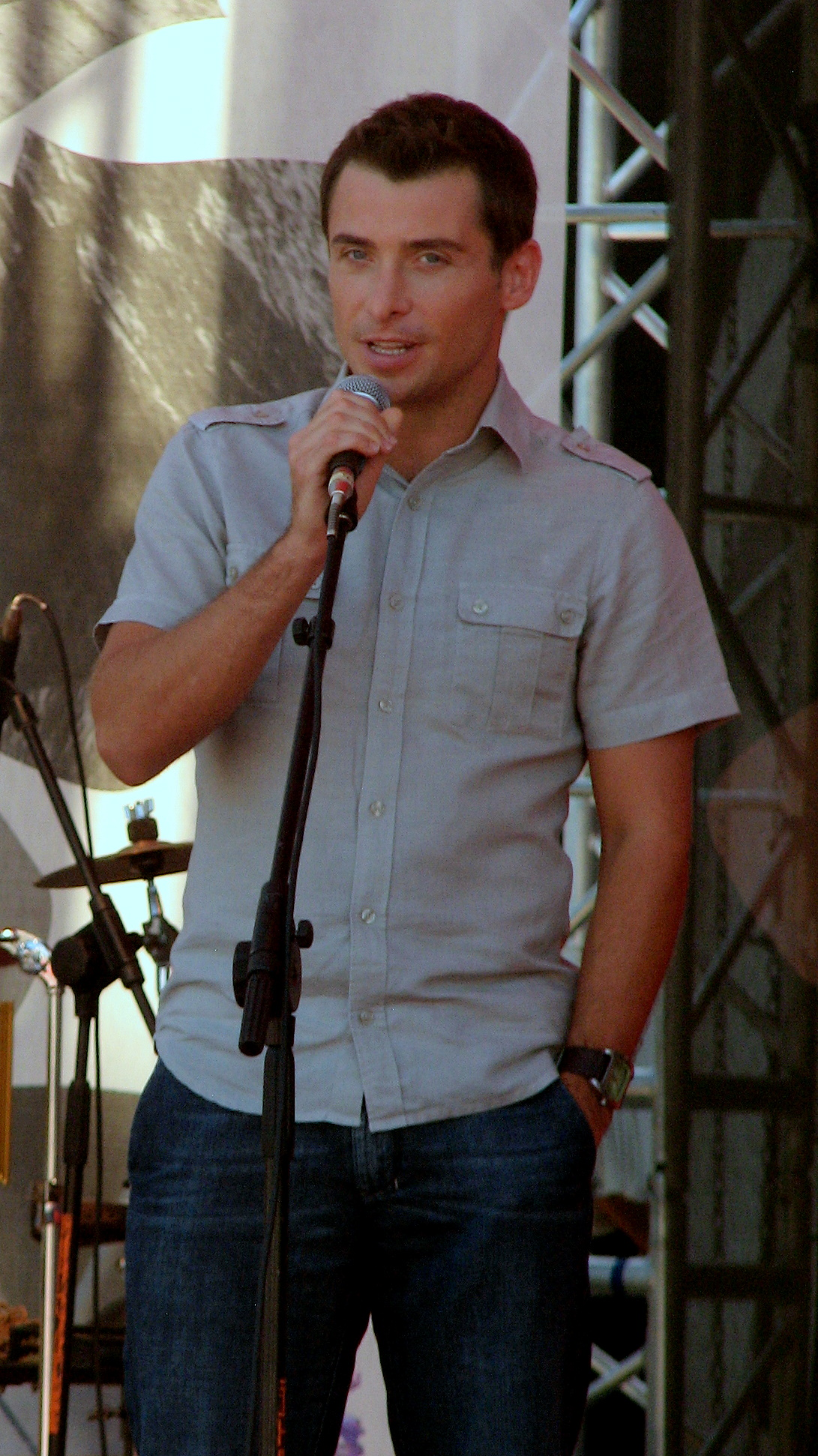 Kacper Kuszewski during IV Meeting Of Fans of the TV Series "M jak miłość" in Gdynia 2010. "M jak Miłość" in exact translations: "L as Love".